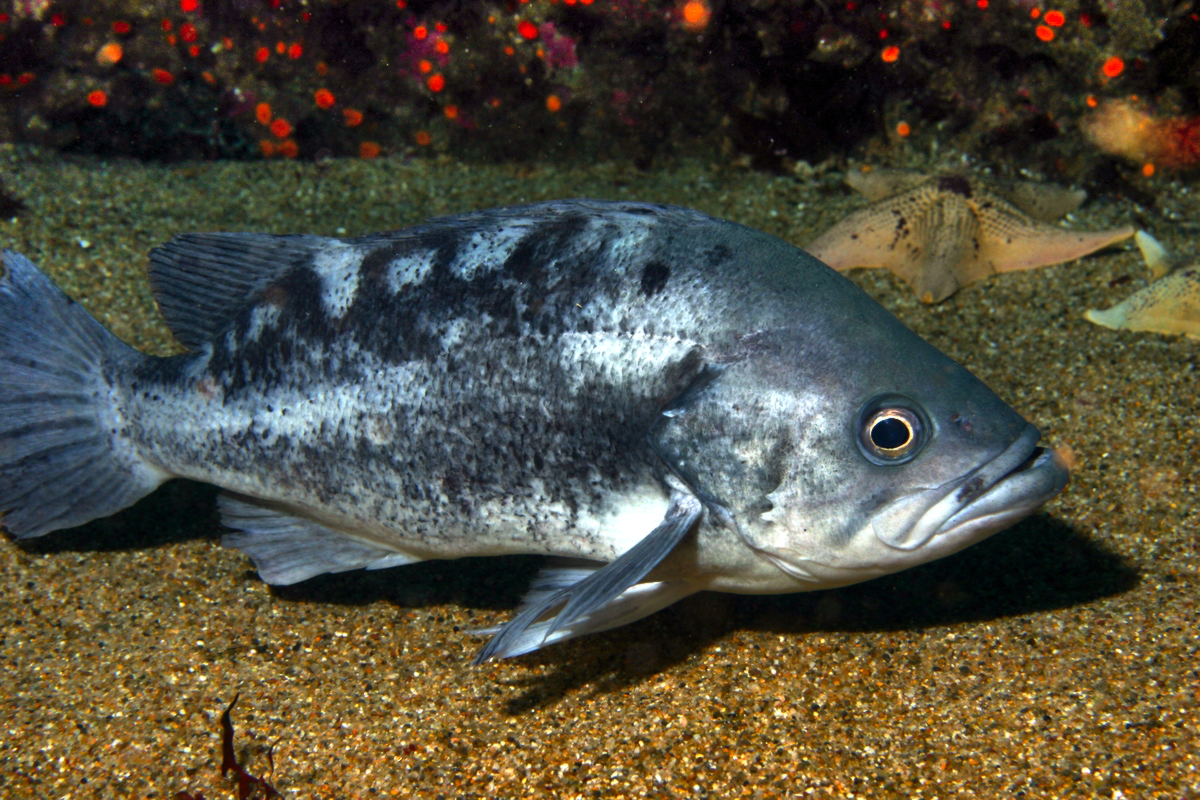 Black Rockfish (Sebastes melanops). Courtesy of Monterey Bay Aquarium.